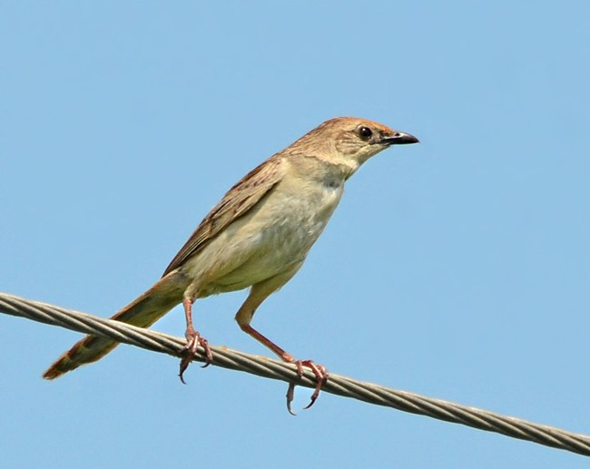 Photograph of the bird